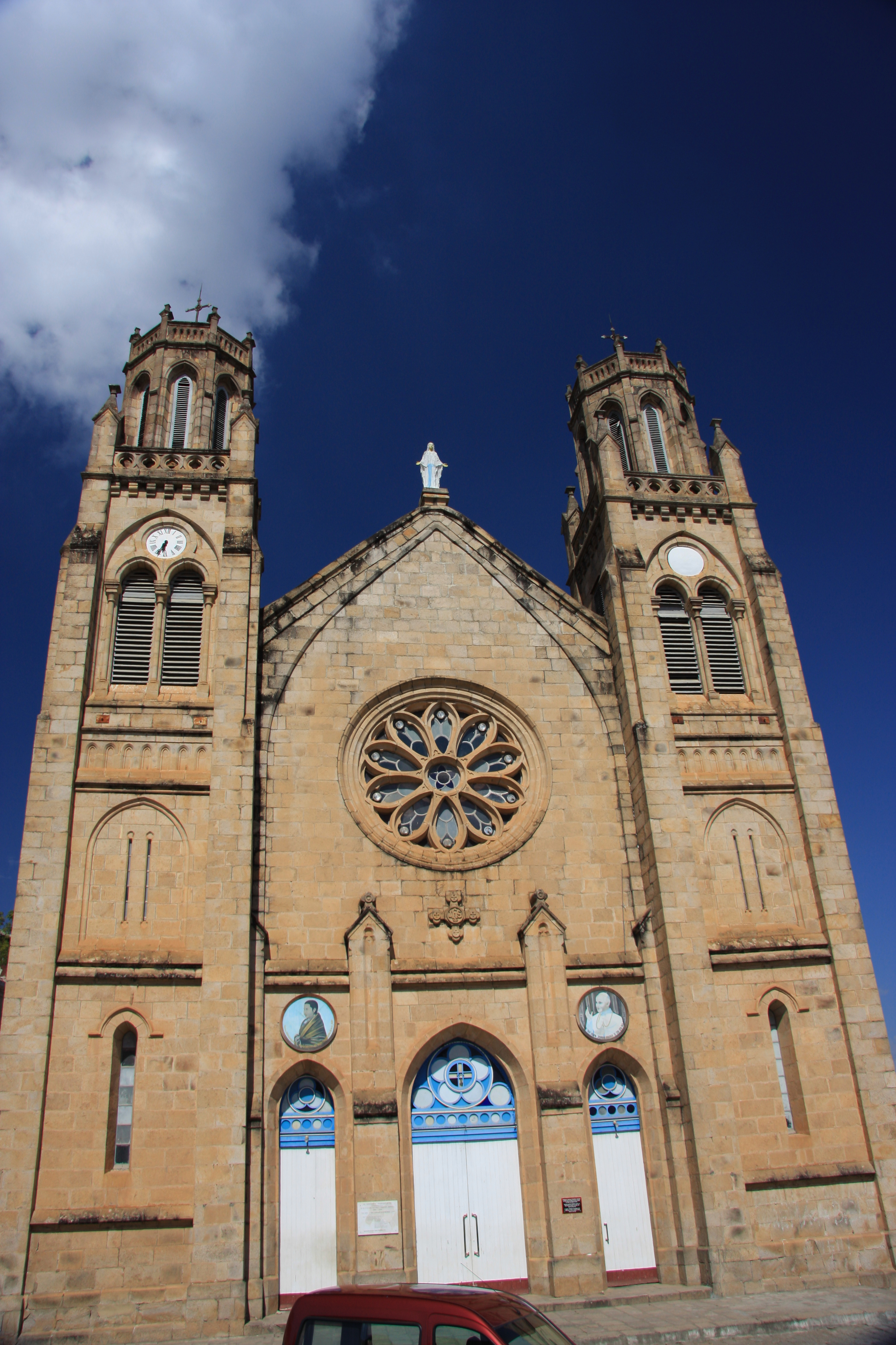 Located at the top of the hill overlooking Antananarivo.